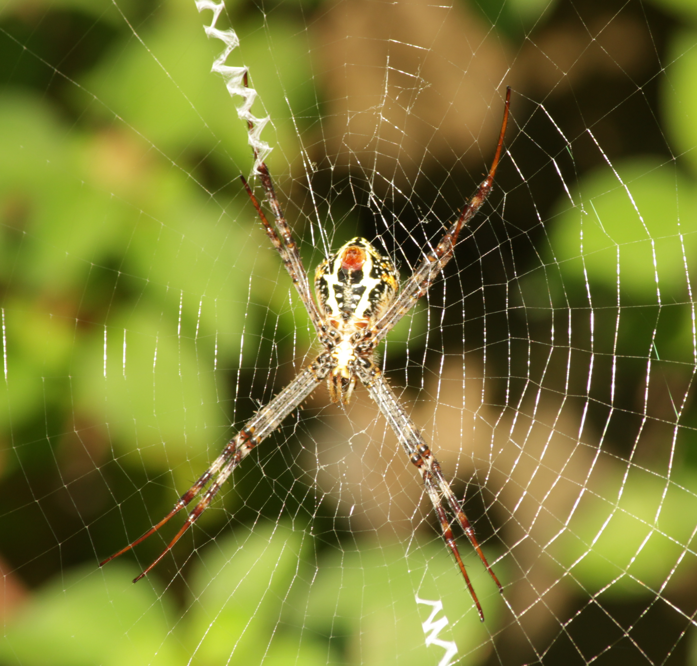 Argiope pulchella, Photographed at Kanjirappally, Kottayam, Kerala.